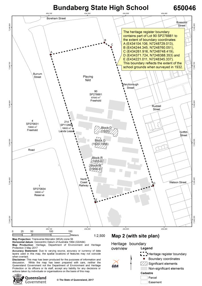 650046 - Bundaberg State High School - map 2 (2017)